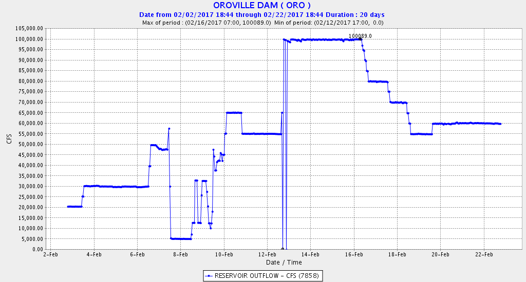 Plot showing OrovilleLake Outflow Feb 2017